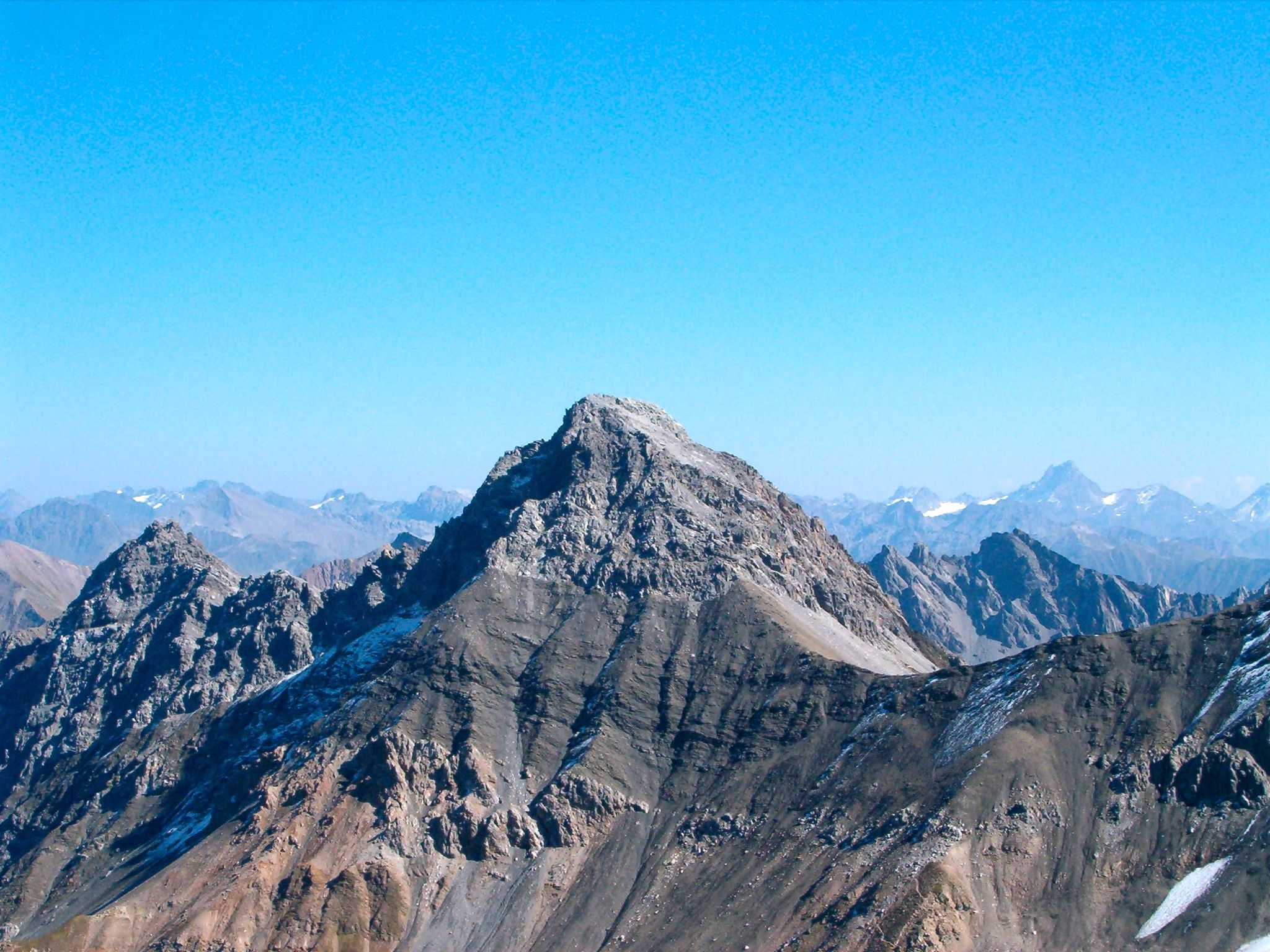 Erzhorn at Arosa, Plessur Range